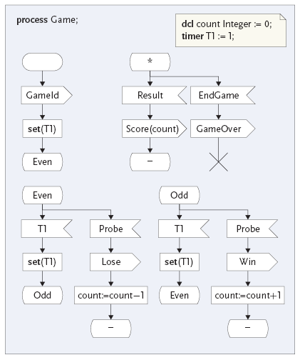 Diagram of the process Game in SDL (Specification and Description Language)